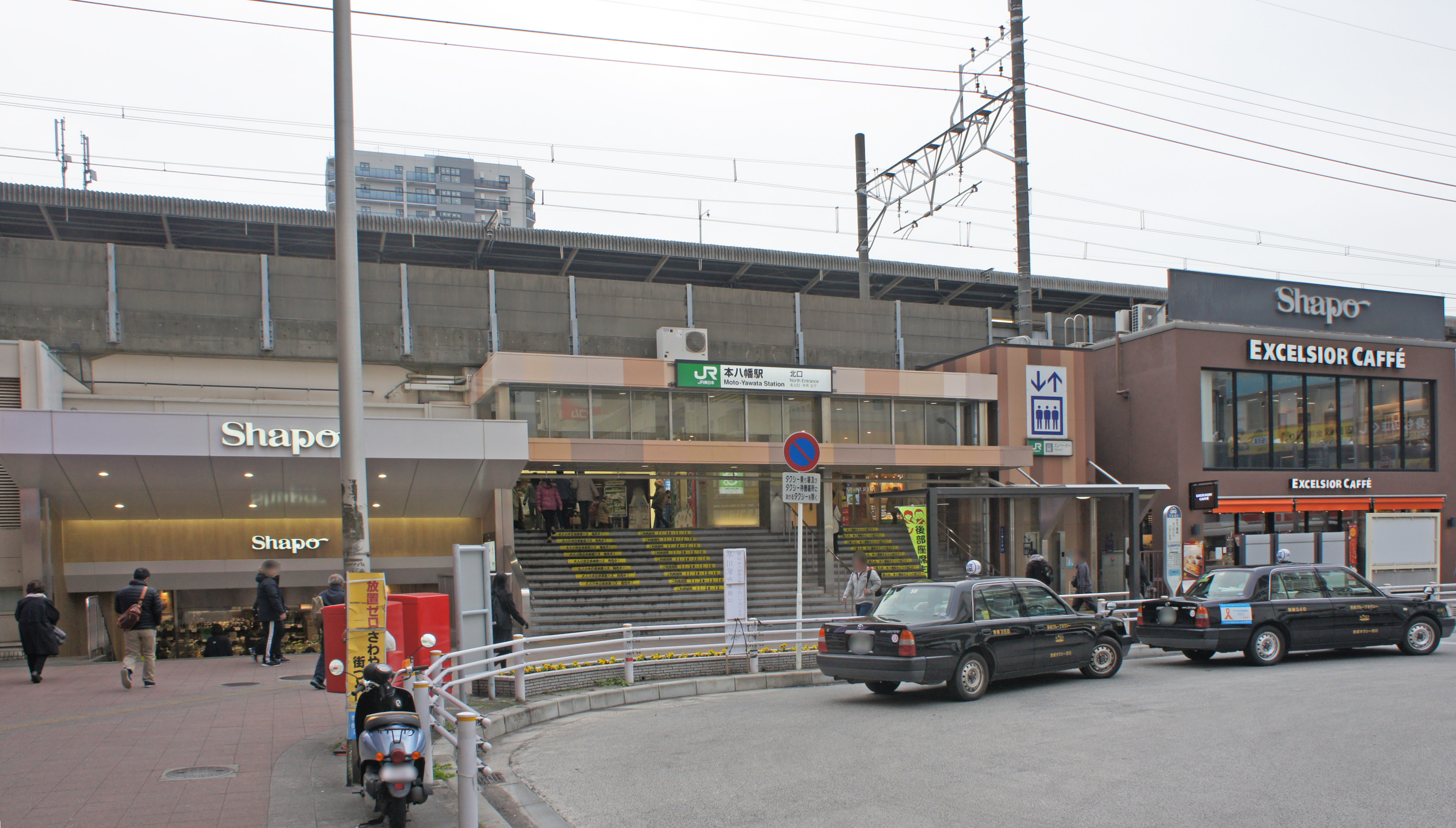 North Exit of JR Sobu-Main-Line Moto-Yawata Station